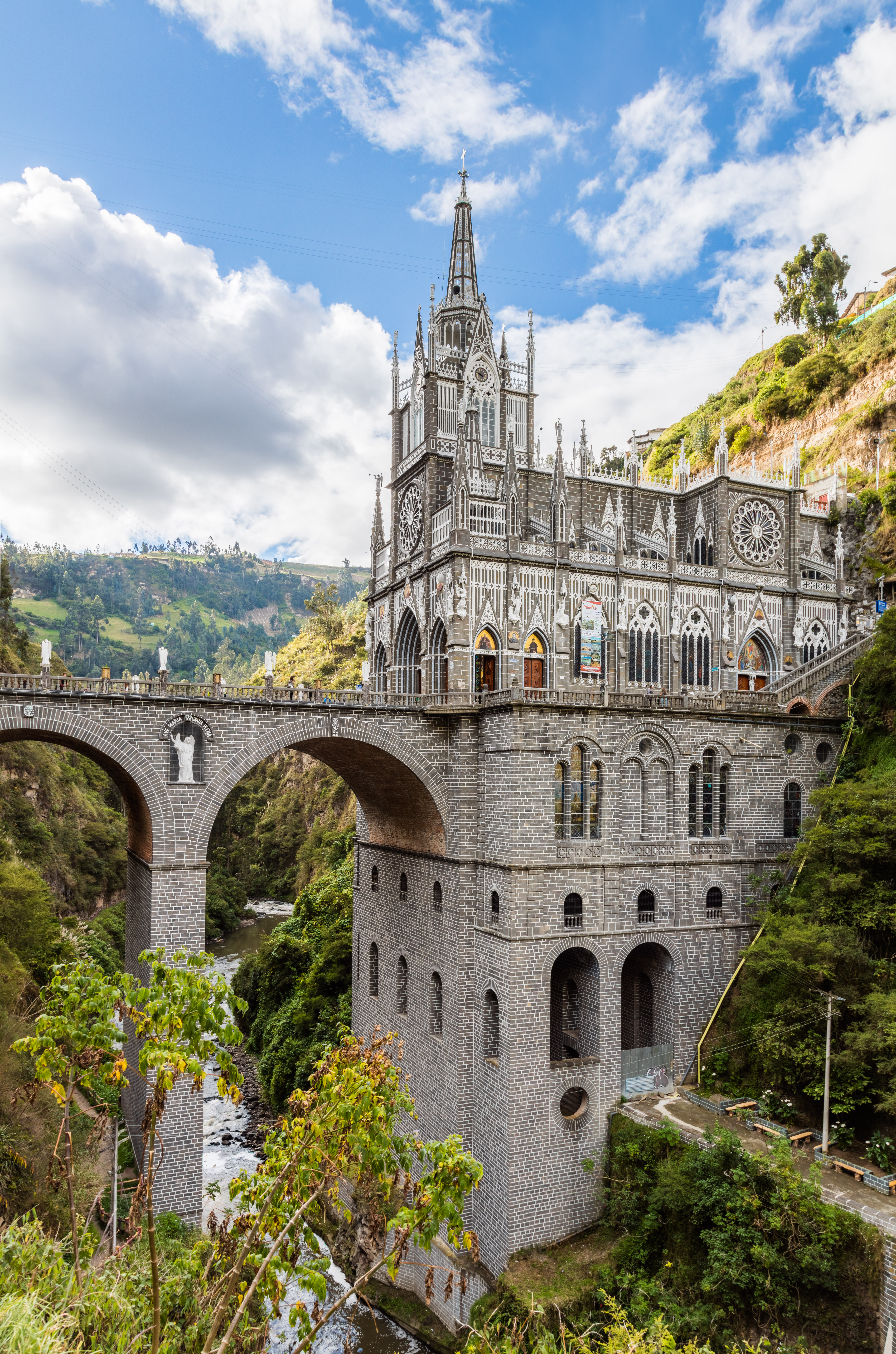 Sanctuary of Las Lajas, Ipiales, Colombia